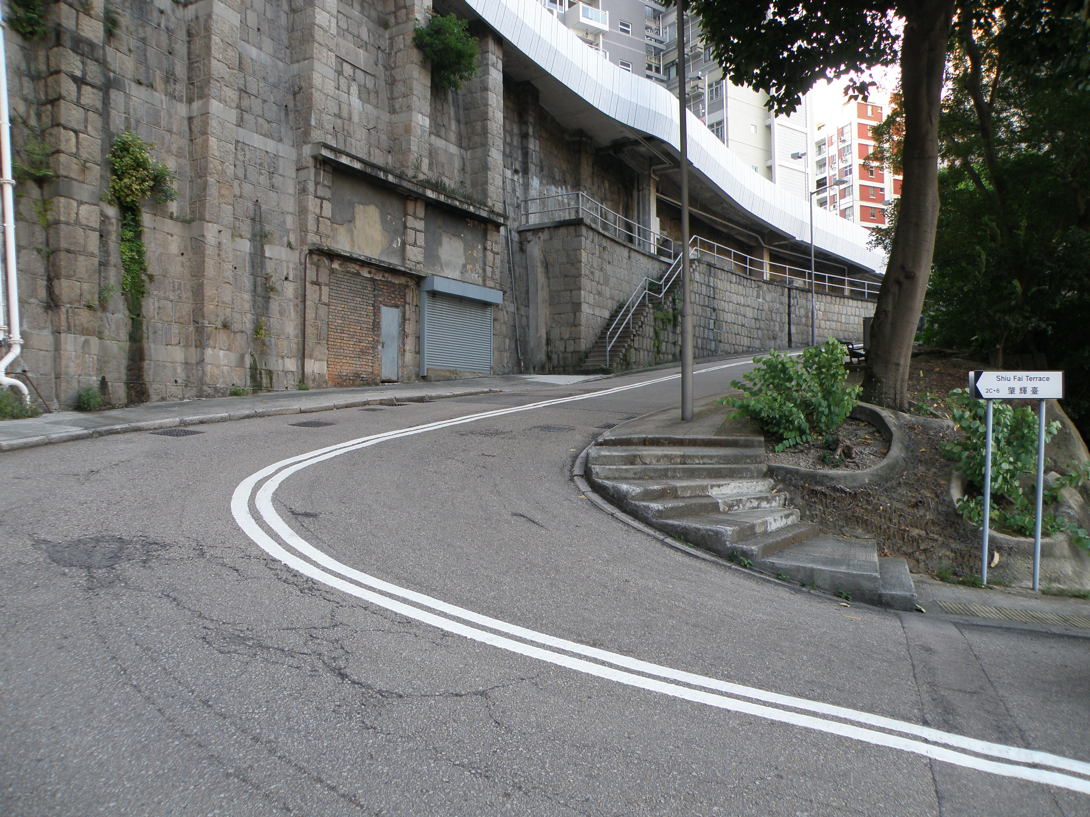 Shiu Fai Terrace in Wan Chai District, Hong Kong.